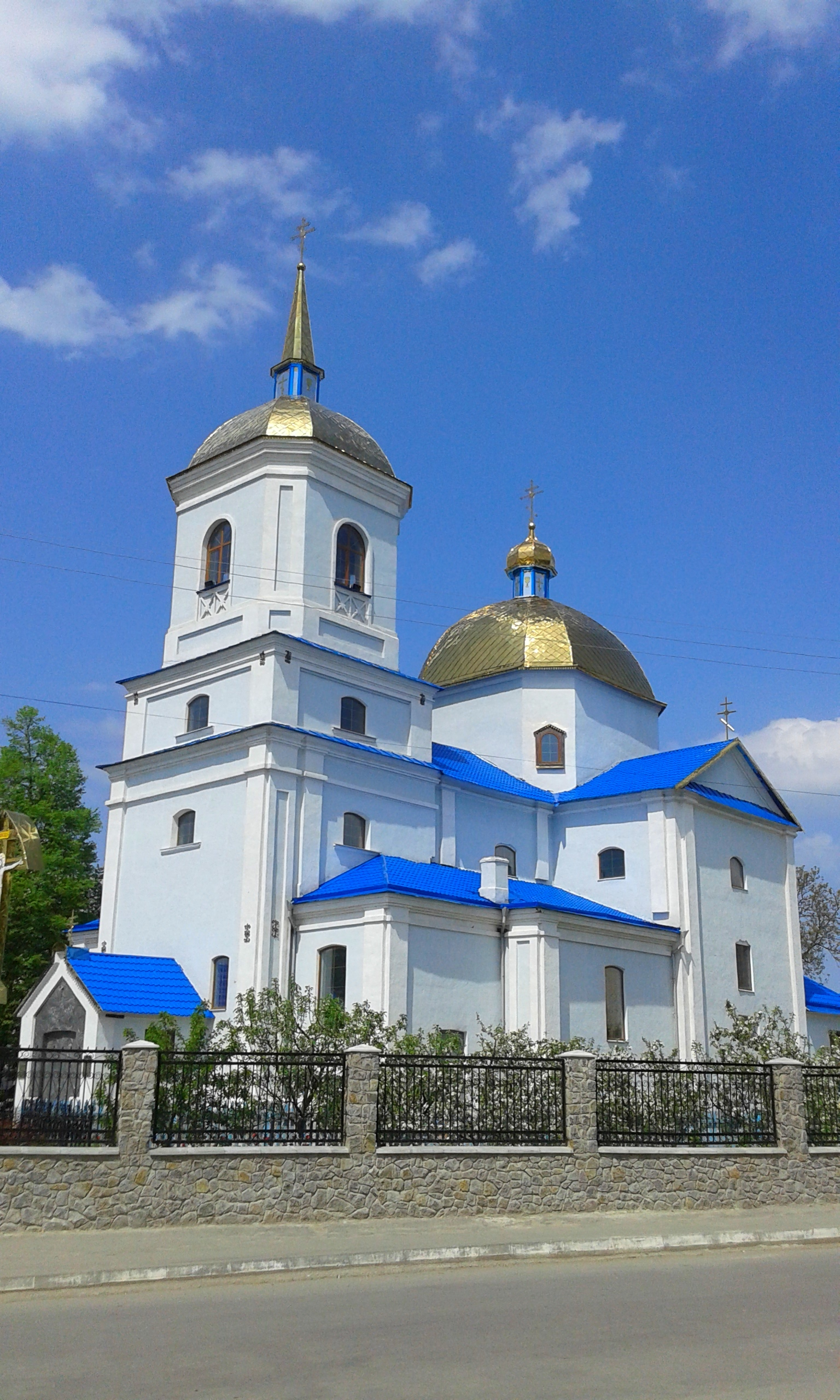 (002) Assumption Orthodox Cathedral in Town of Bar Region of Vinnytsia State of Ukraine Photograph by Viktor O Ledenyov 20170504